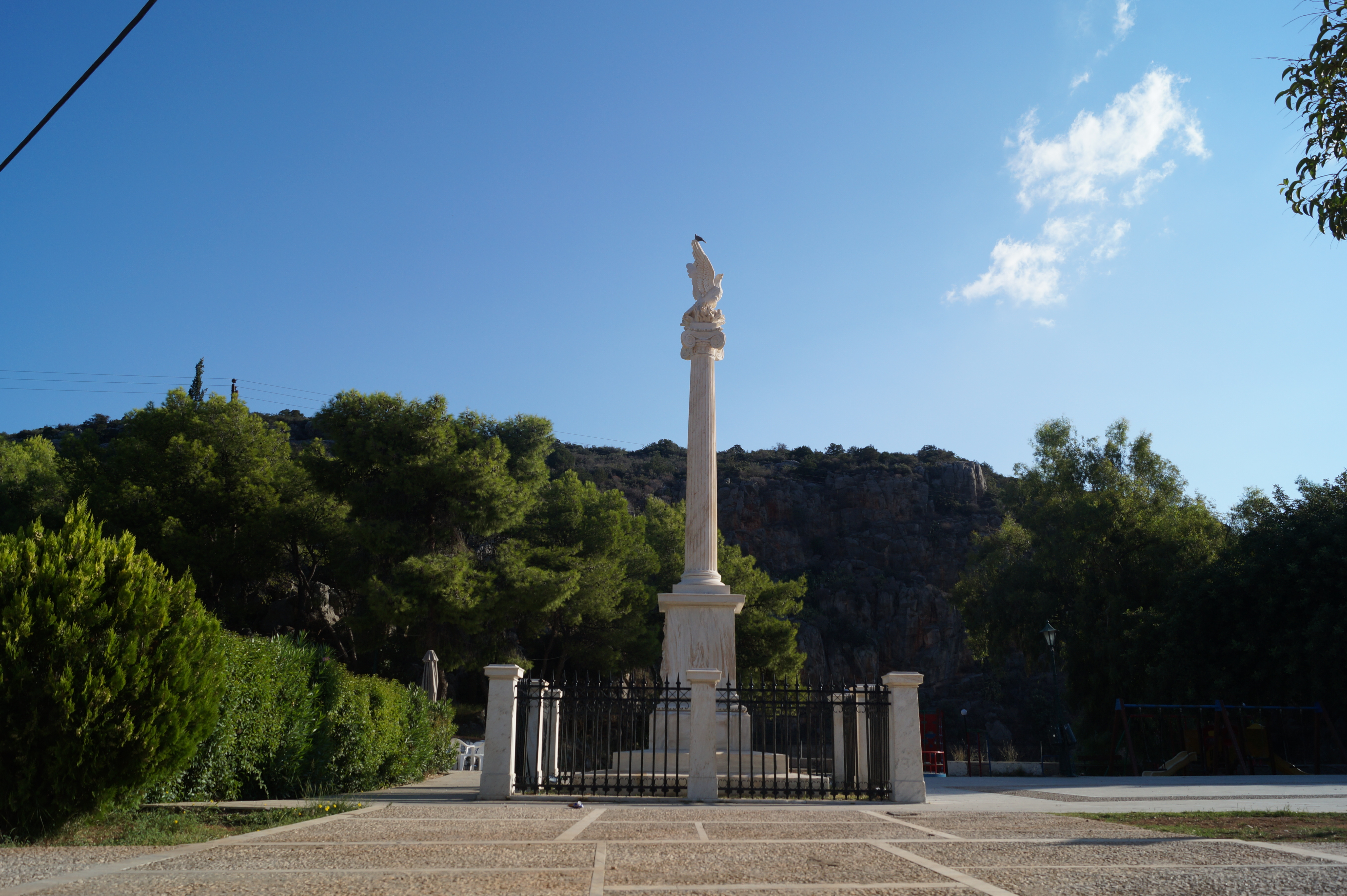 Nea Epidavros, Argolida, Greece: Monument on the site of the First Greek National Assembly in 1822.